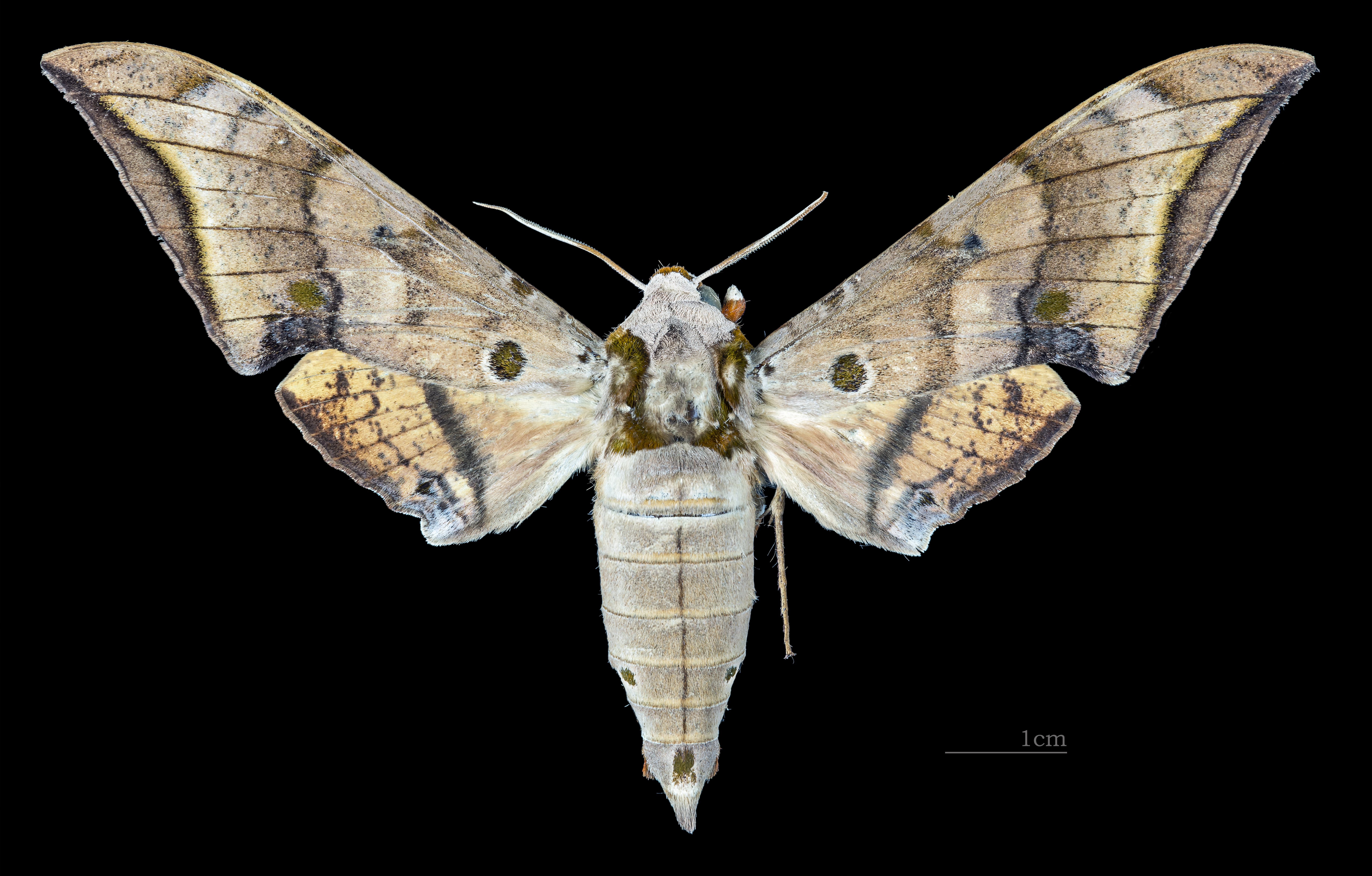 Spotted gliding hawkmoth - Dorsal side Collection of the Mathematician Laurent Schwartz